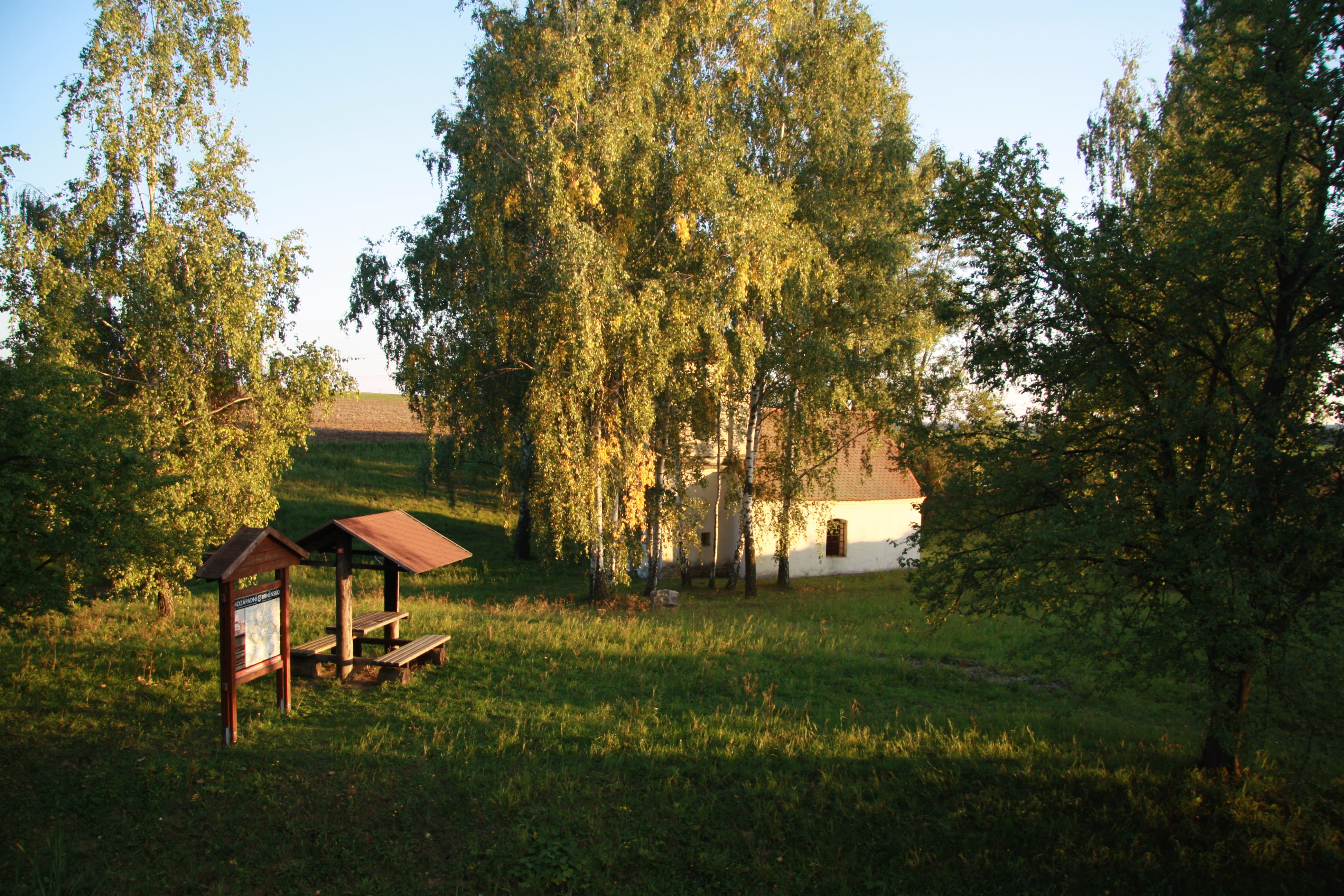 Overview of Heřmanice, Třebíč District.